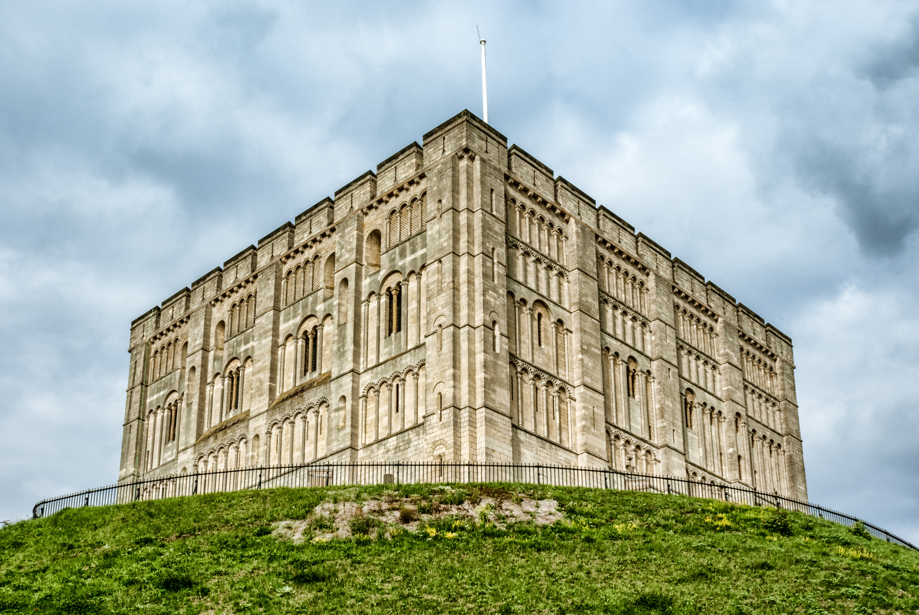 Norwich castle viewed from Castle Meadow in the city of Norwich, England.